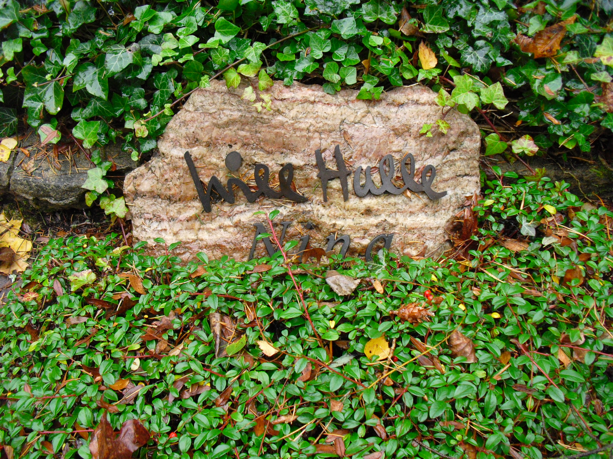 Grave of German artist Will Halle in Friedhof Heerstraße in Berlin-Westend